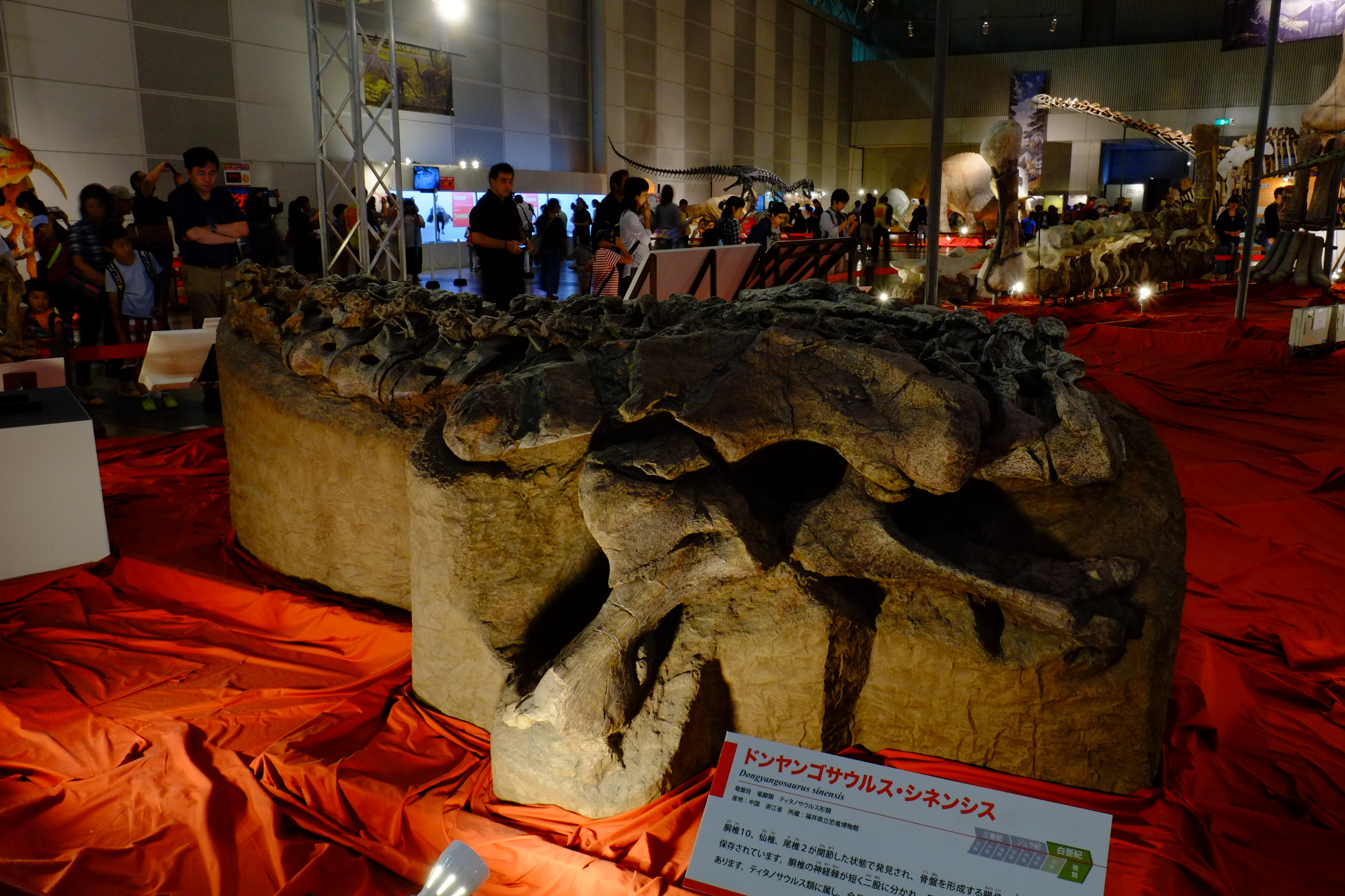 Dongyangosaurus fossil